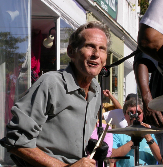 Levon Helm performing on the Village Green in Woodstock, New York on September 26, 2004.